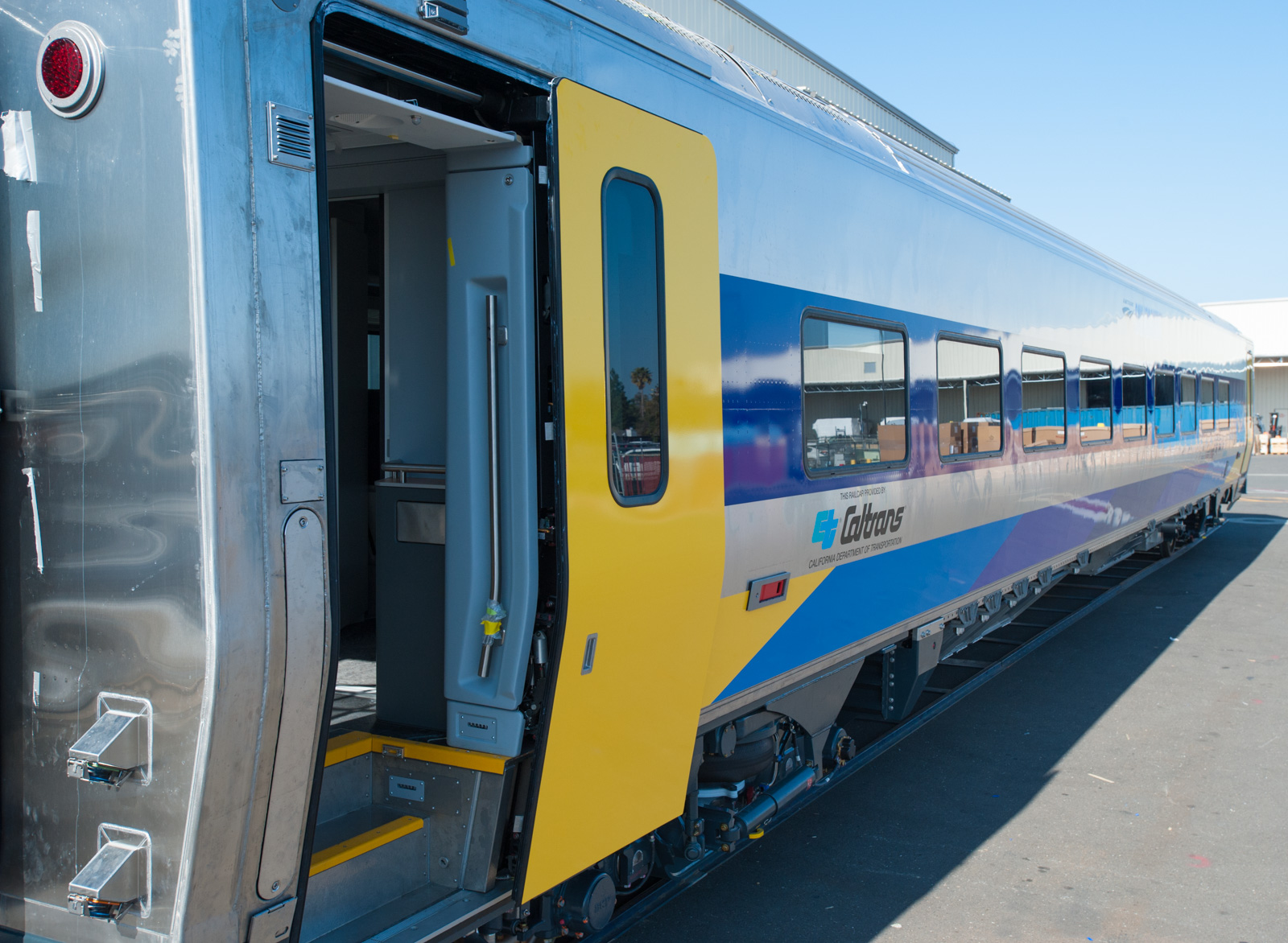 A new Siemens Venture railcar manufactured for Amtrak California's San Joaquins train service.